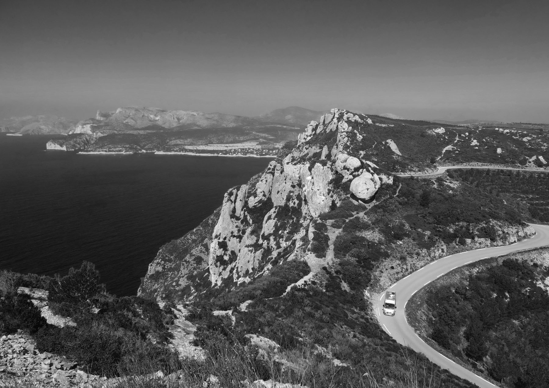 The "Corniche des Crêtes" road across Cap Canaille between Cassis and La Ciotat, France. Massif des Calanques visible in background in the direction of Marseille.